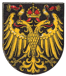 coat of arms of Krems an der Donau.